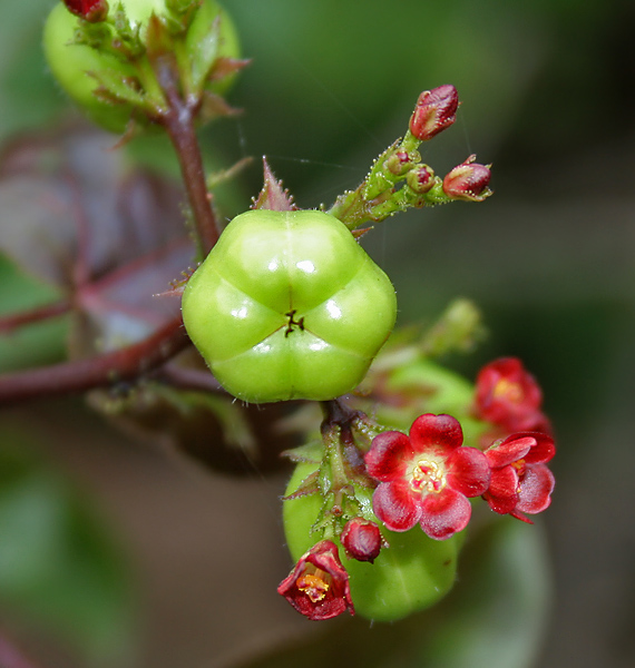 Bellyache Bush or Cottonleaf Physic Nut Jatropha gossipifolia in Hyderabad , India.